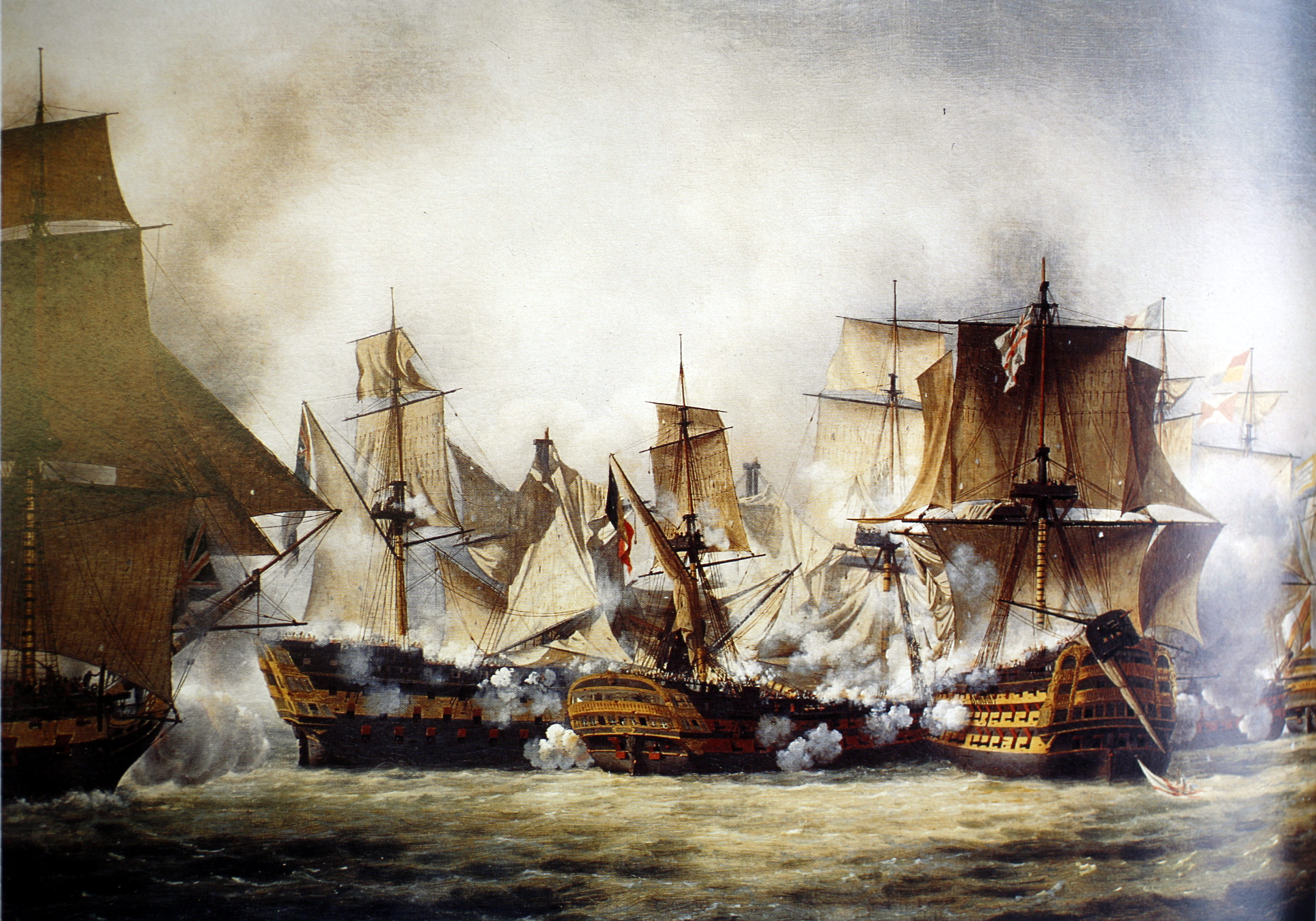 Scene of the Battle of Trafalgar